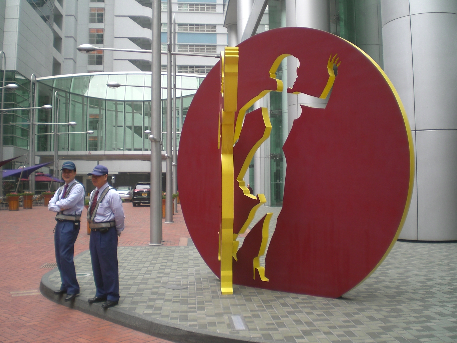 香港鰂魚涌太古坊Allen Jones[1]